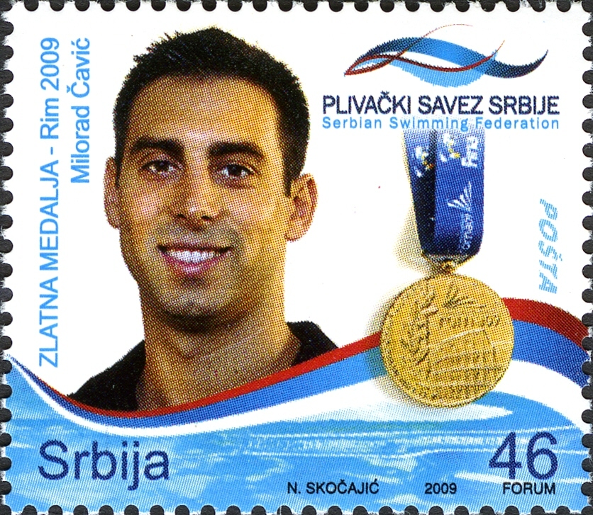 FINA world Championships - Rome 2009